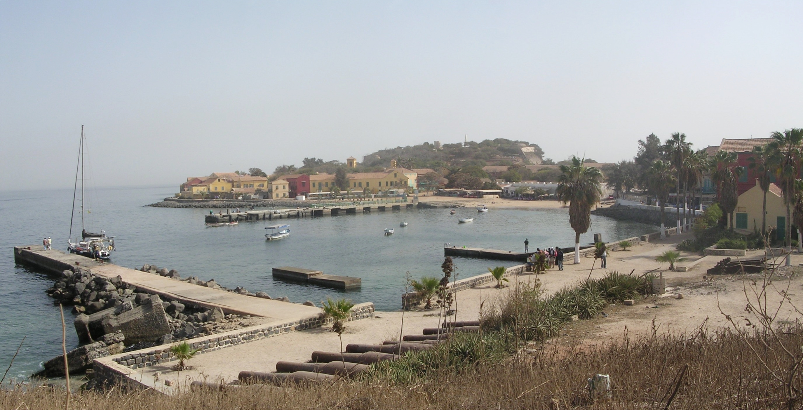 Gorée Island (Dakar, Senegal)